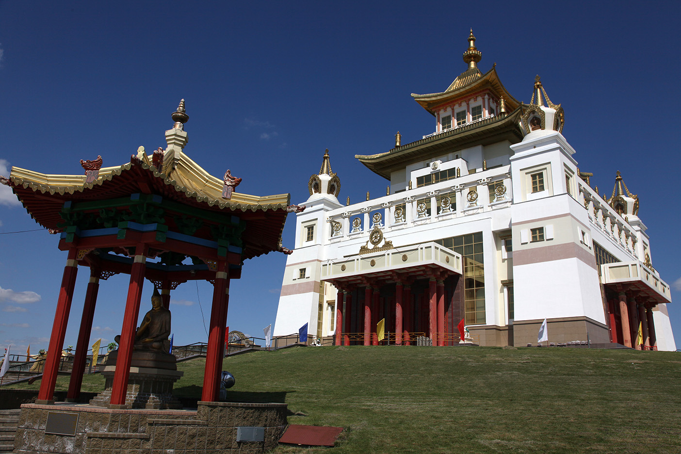 The Golden Temple of Shakyamuni Buddha (Зoлотая обитель Будды Шакьямуни) at Elista, the Republic of Kalmykia, Russian Federation. It was opened in December 2005 and named by Dalai Lama